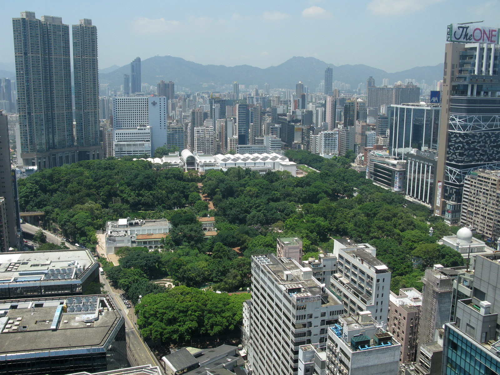 Aerial view of Kowloon Park